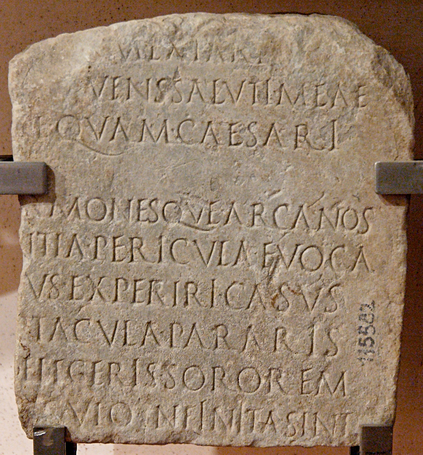 So-called “Laudatio Turiæ”, col.2 (2.0 to 2.9). Latin inscription. Marble, late 1st century BC. From the Via Portuense.